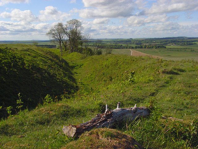 Sidbury